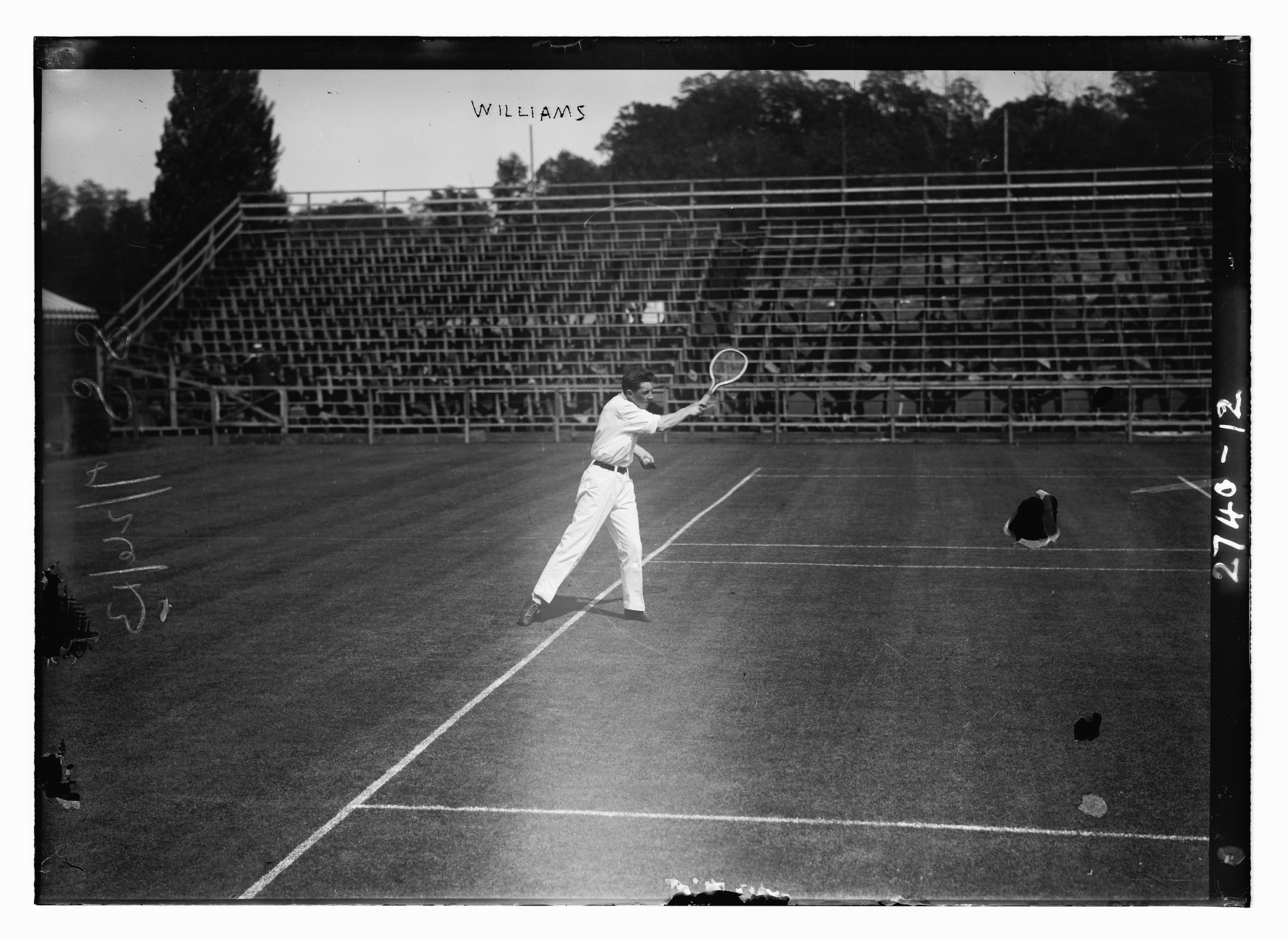 Photo shows R. Norris Williams (1891-1968), American tennis player and Titanic survivor, probably practicing for the 1913 Davis Cup competition, West Side Tennis Club, New York City.